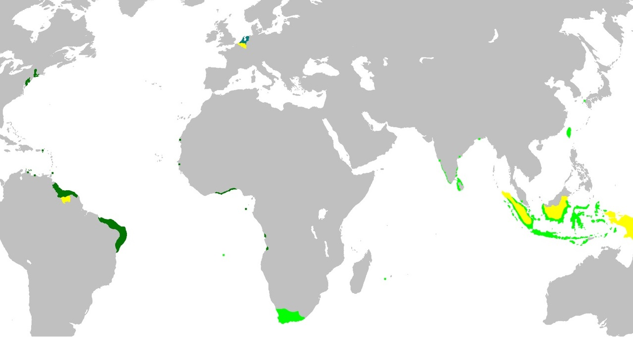 Evolution of the Dutch empire updated to fix the Ceylon Territory,The central kingdoms of Ceylon were never colonized. The Dutch Empire. Dark green areas were controlled by the Dutch West Indies Company; light green areas were controlled by the Dutch East India Company. In yellow the territories occupied later, during the 19th century.